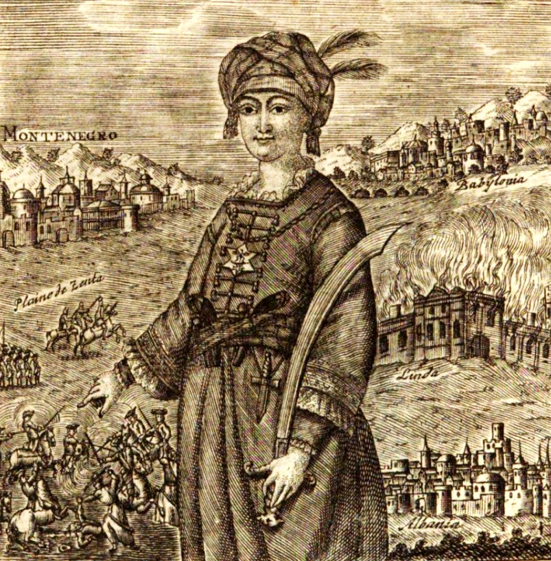 Šćepan Mali, ruler of Montenegro 1767-1773, who posed as the murdered Russian tsar Peter III. The image is from Stefano Zannowich's 1784 biography of Šćepan Mali (source).